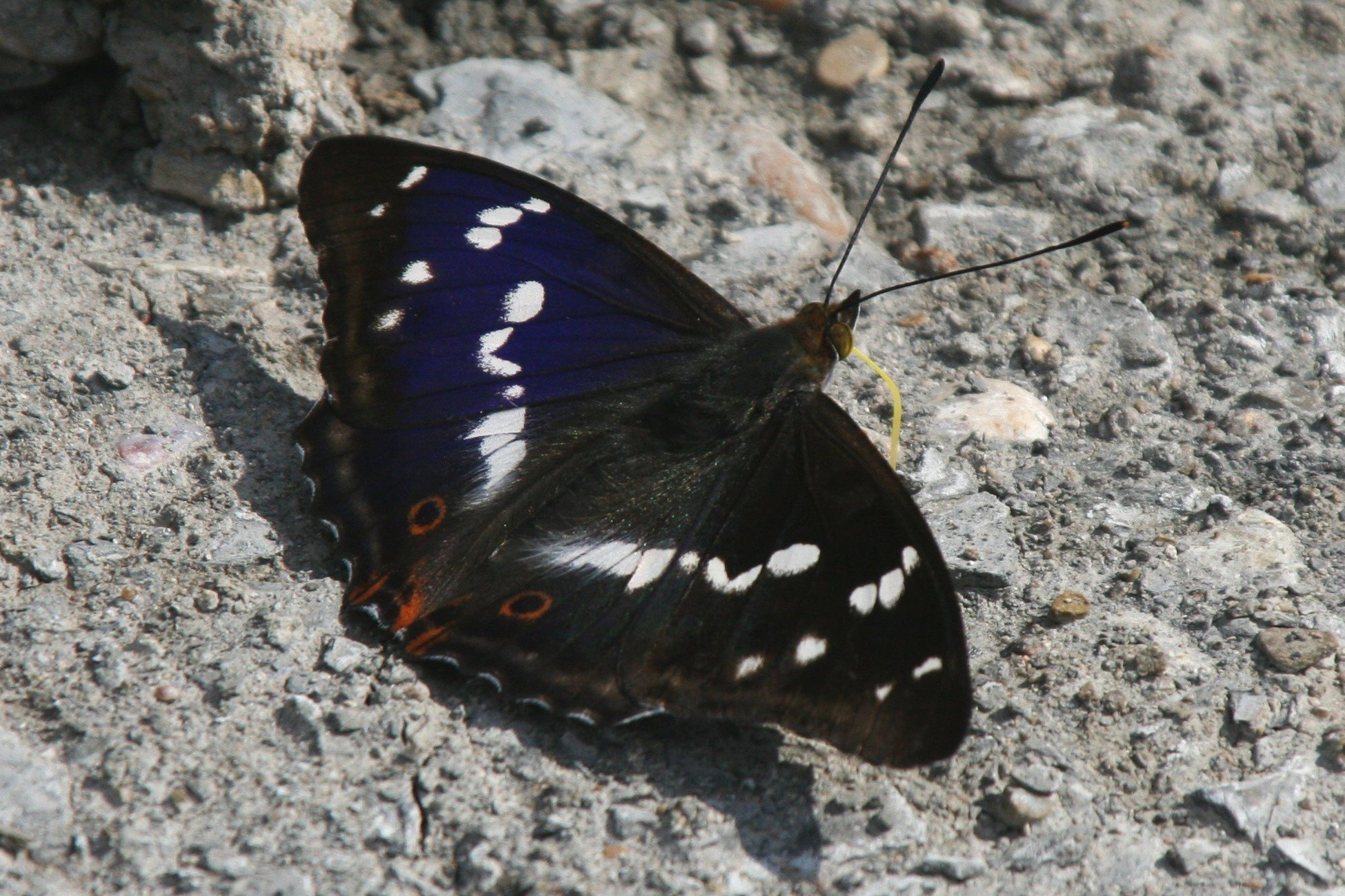 A male Purple Emperor (Apatura iris), photographed in Weinsberg